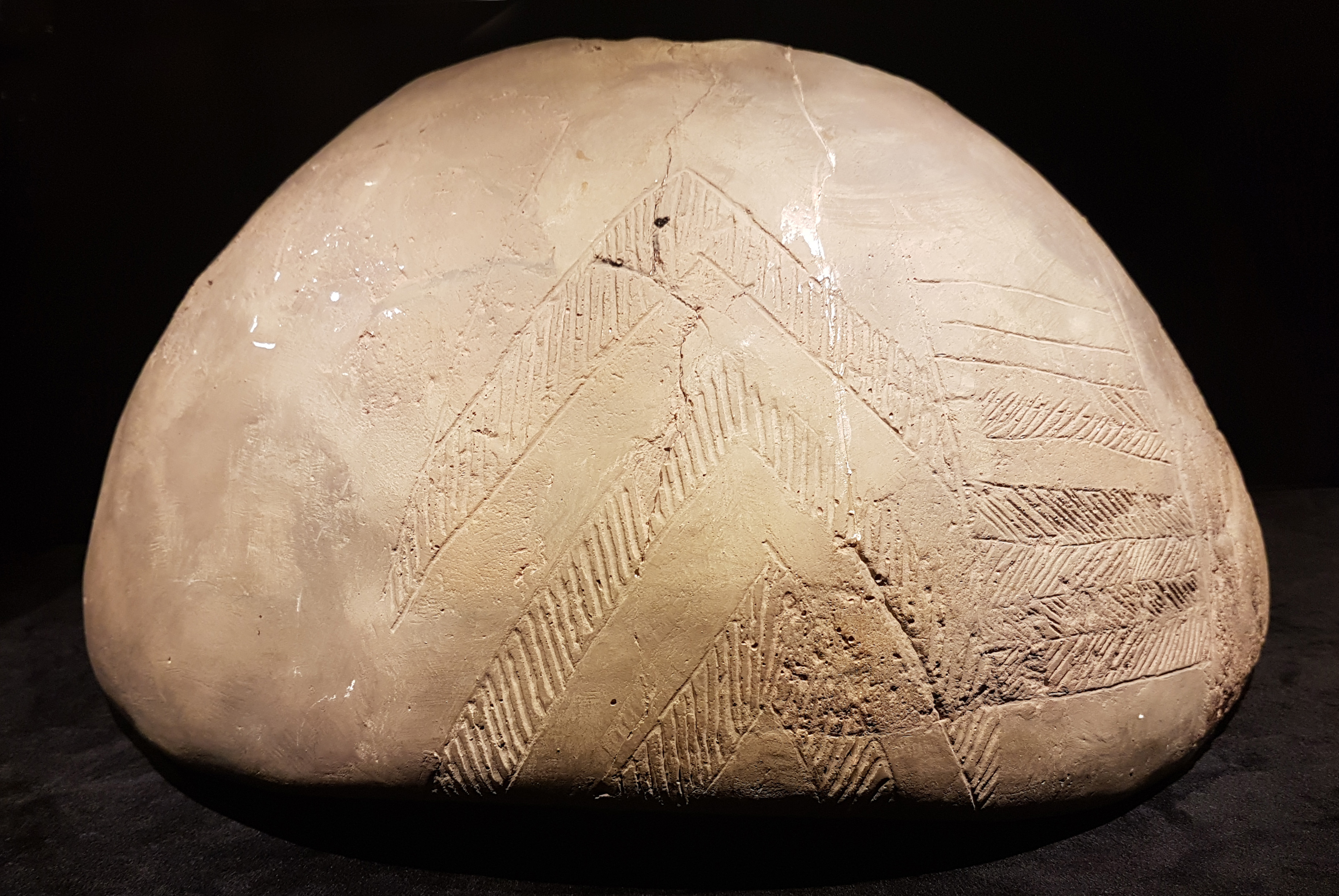 Limburg ware bowl (c. 5300-4900 BC) found in Kesseleik, the Netherlands. Collection of Centre Céramique, Maastricht. Photographed at the temporary exhibition Top or Topic in Centre Céramique in Maastricht.